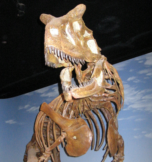 Carnotaurus skeleton, Natural History Museum